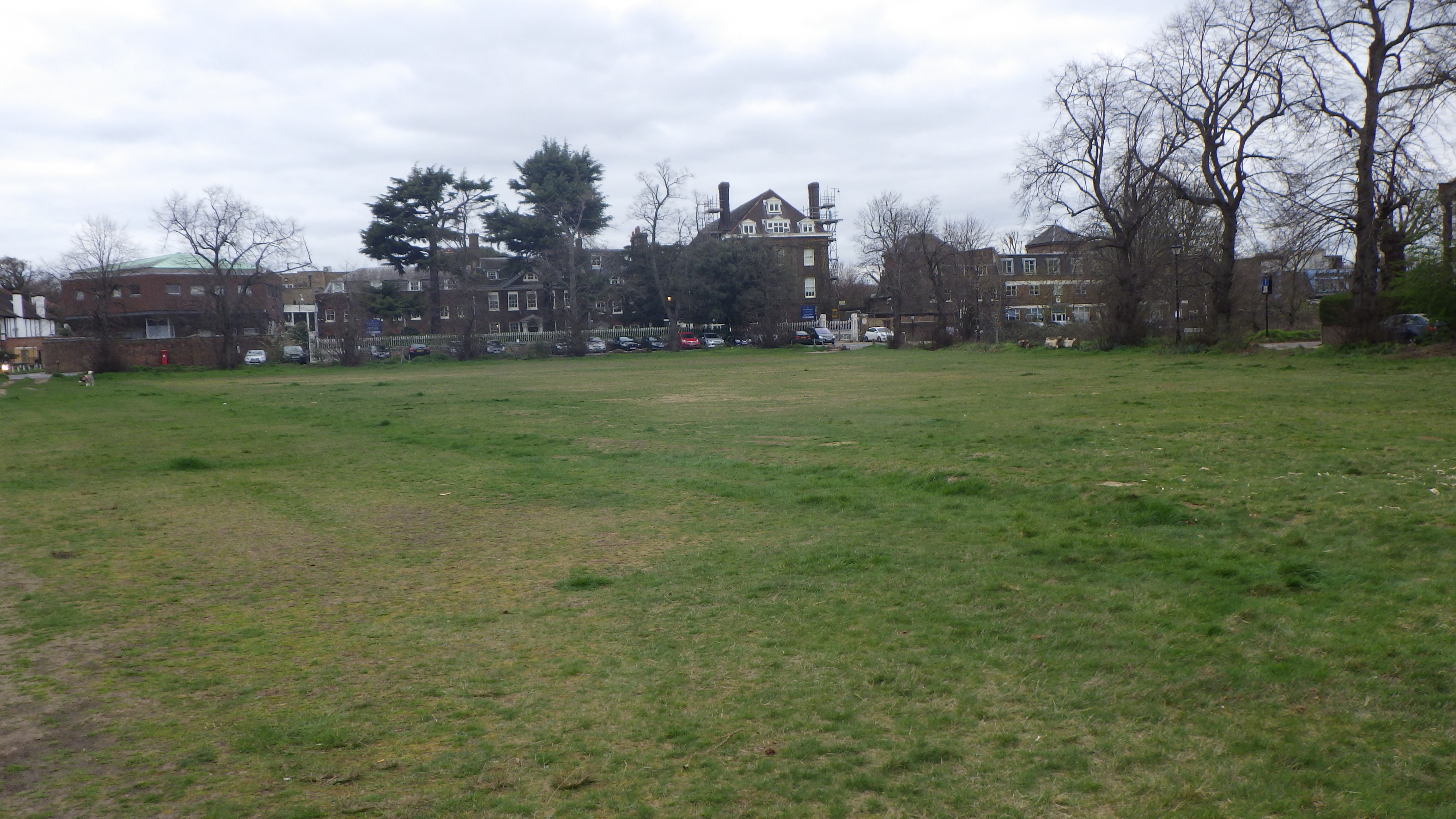 The Common